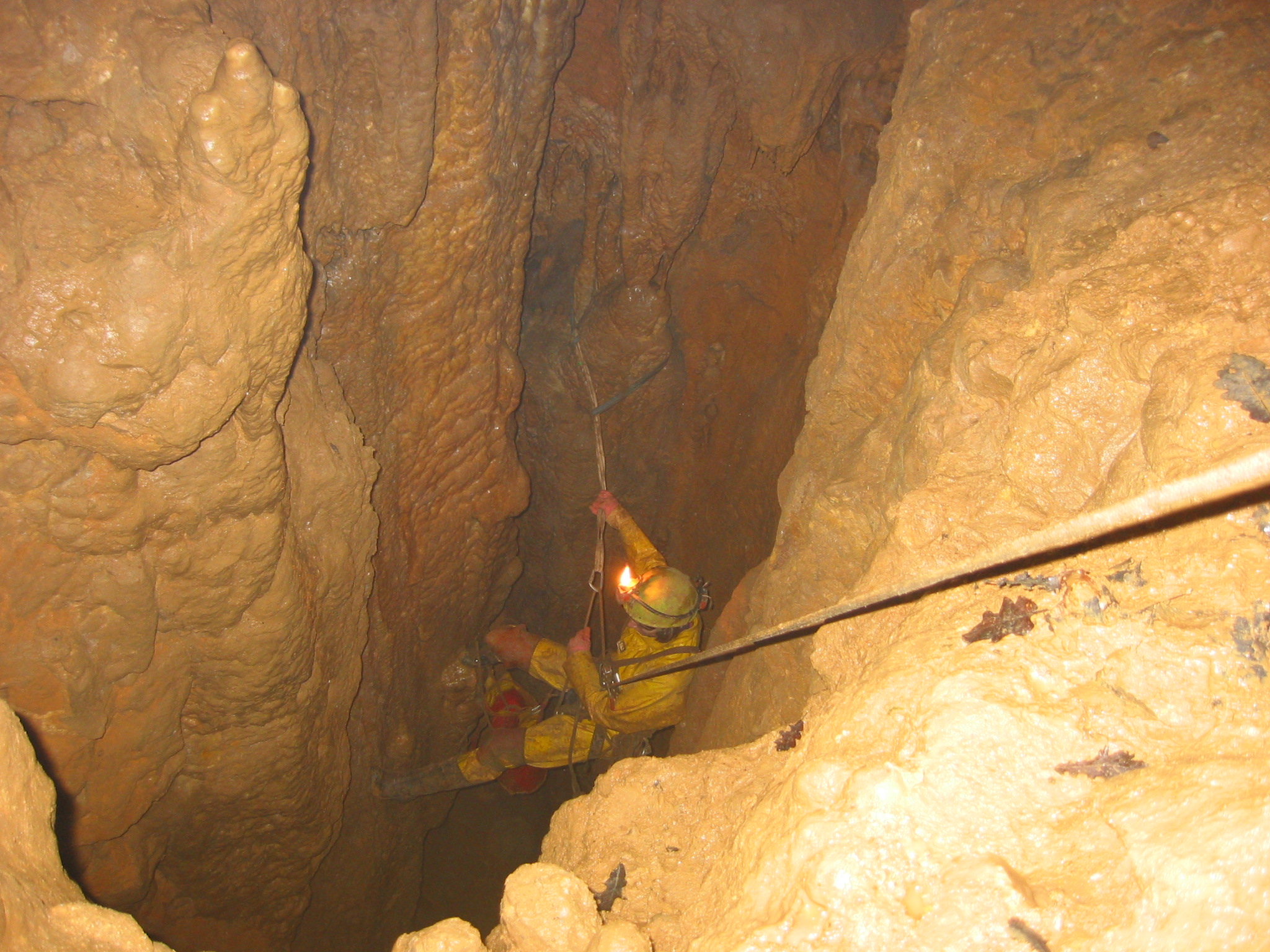 Caver passing a deviation during SRT